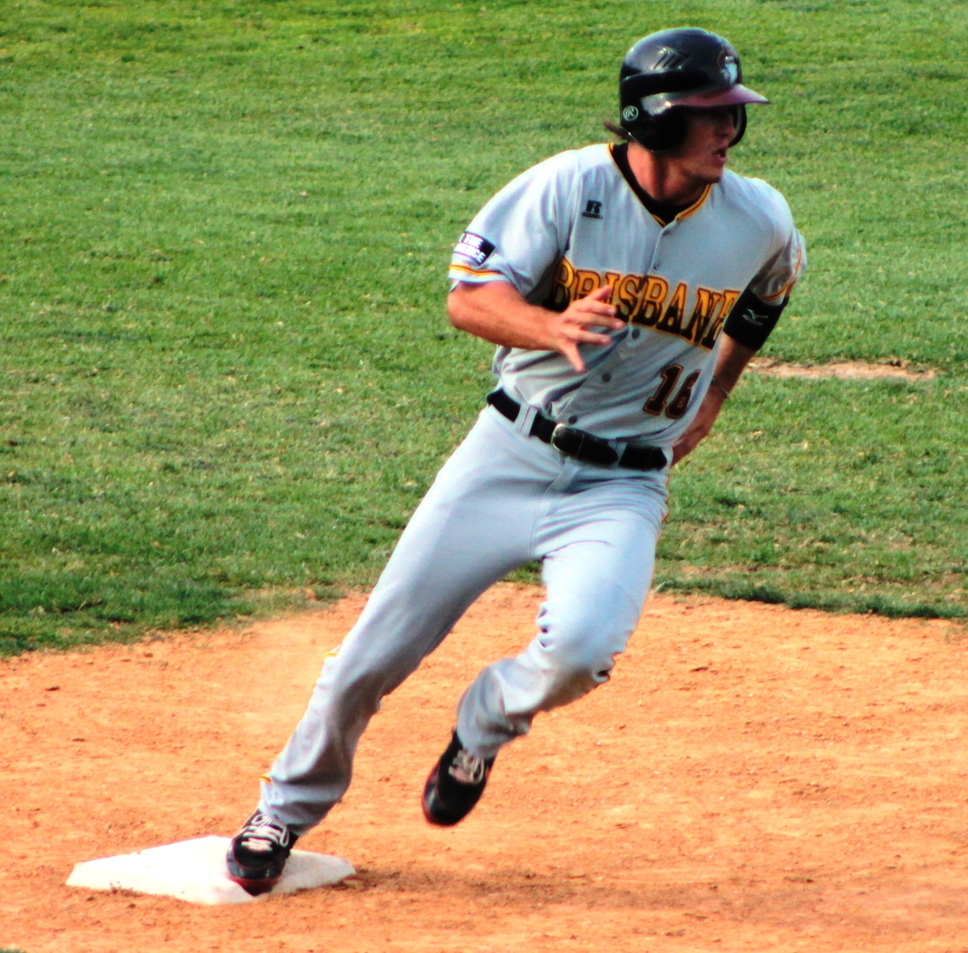 Logan Wade rounding third base for the Brisbane Bandits in 2013.